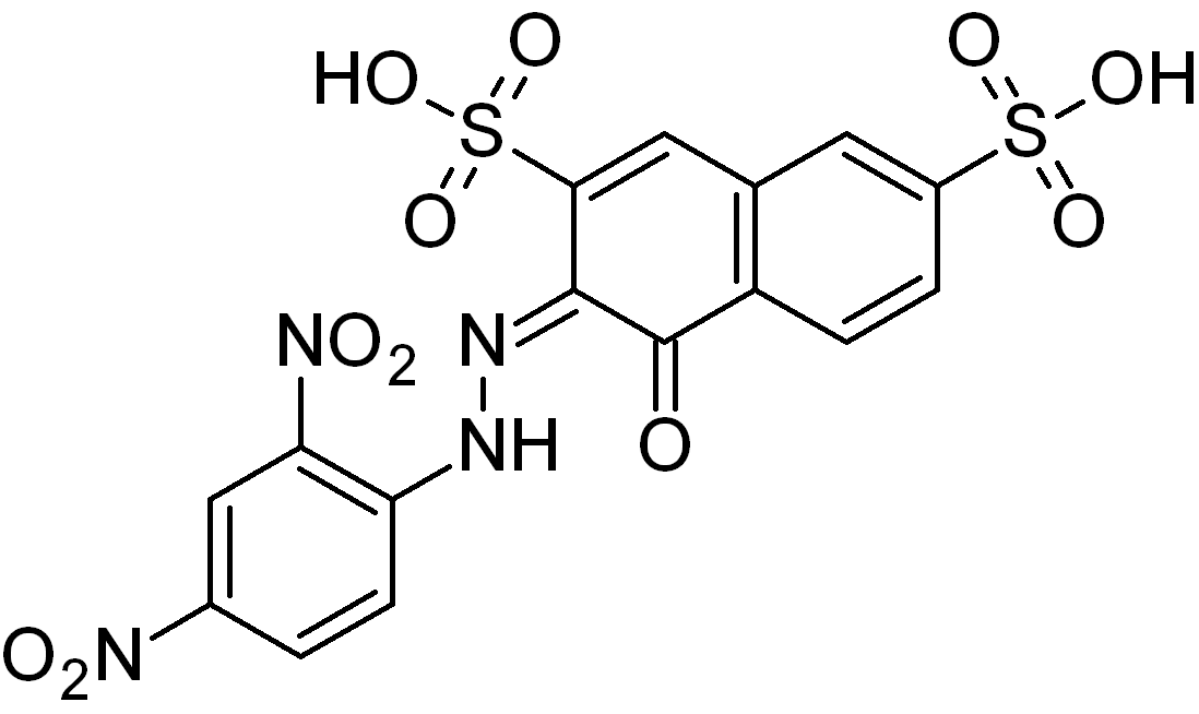 Nitrazine